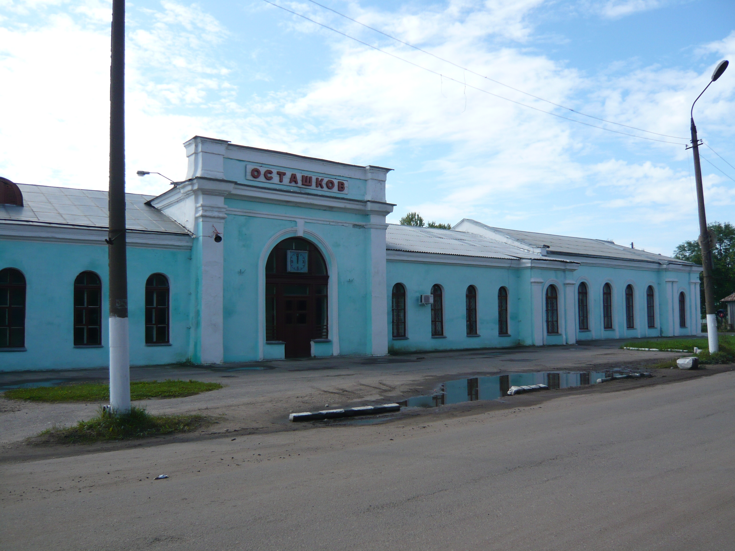 The building of the railway station in the city Ostashkov